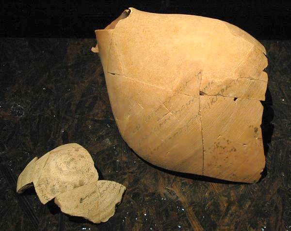 Ai Khanoum Ostraca from the treasury